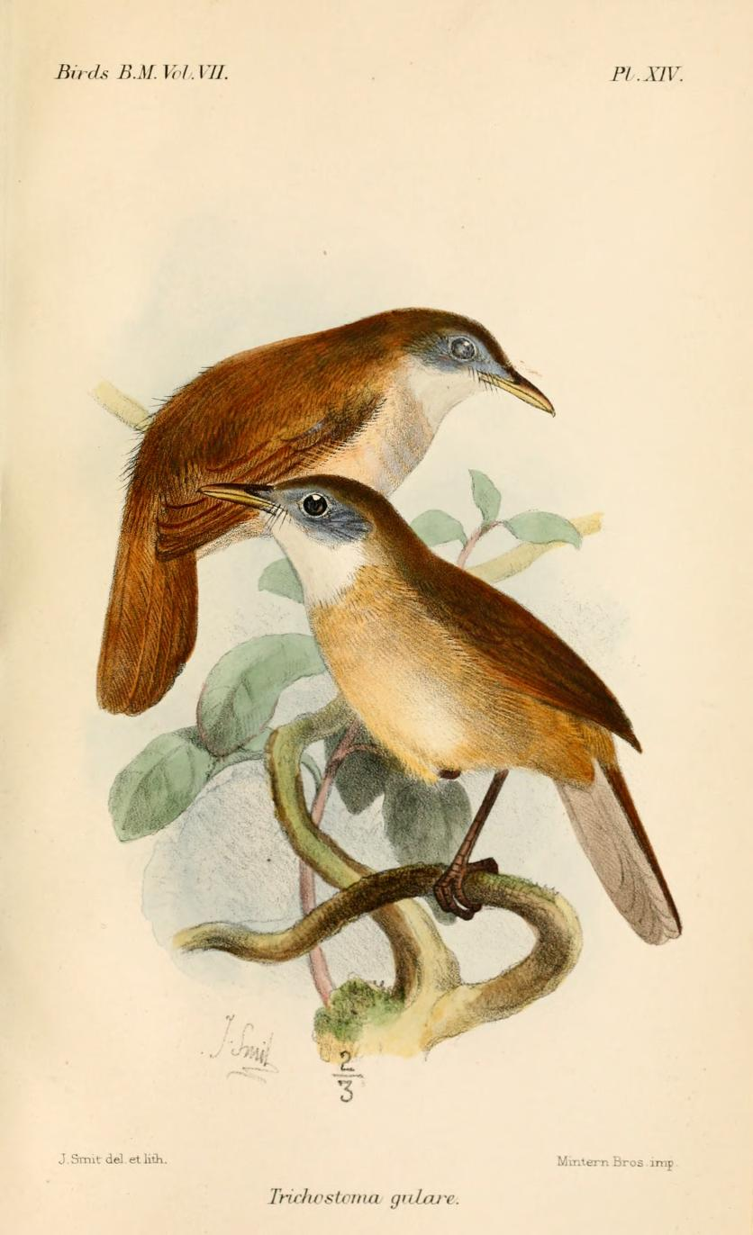 Trichostoma gulare = Rhinomyias gularis, Eyebrowed Jungle-flycatcher